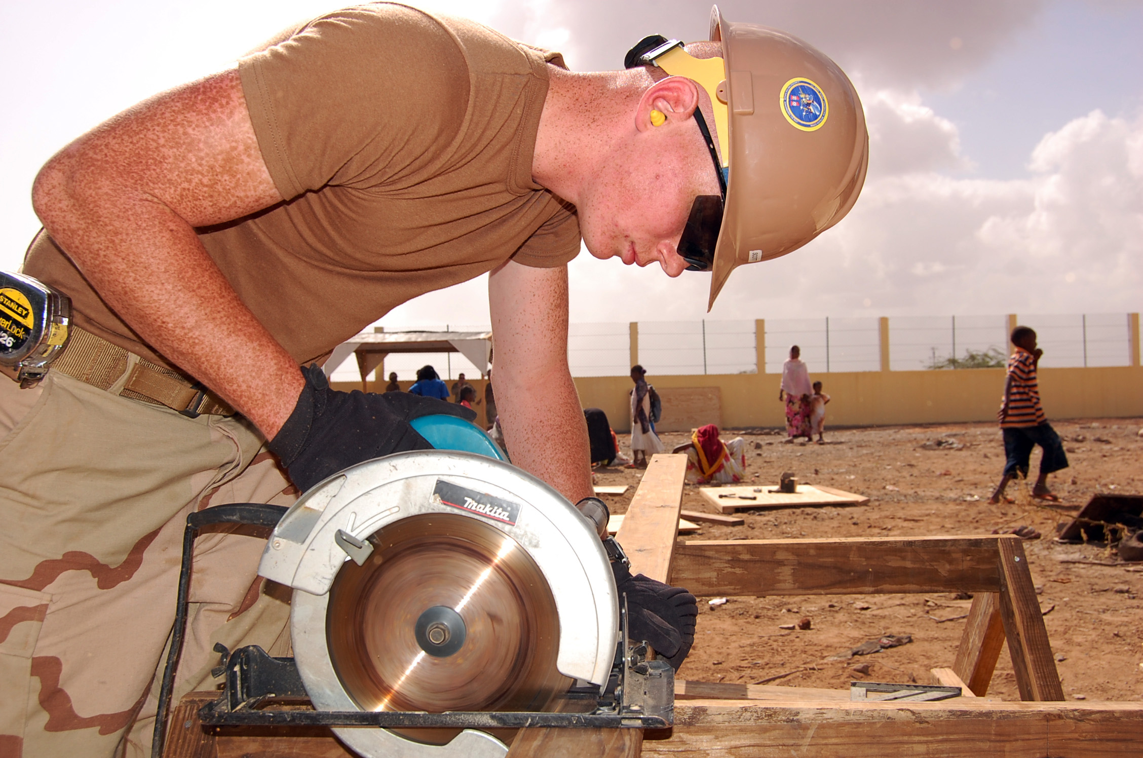 GRANDE DOUDA, Djibouti (Feb. 19, 2009) Builder Constructionman Recruit Heston Scott, assigned to Naval Mobile Construction Battalion (NMCB) 11, cuts lumber for a project at the Douda Ecole School Cantina as students relax during recess. The school is one of six major humanitarian missions assigned to the battalion during their Combined Joint Task Force-Horn of Africa deployment. (U.S. Navy photo by Mass Communication Specialist 2nd Class Erick S. Holmes/Released)